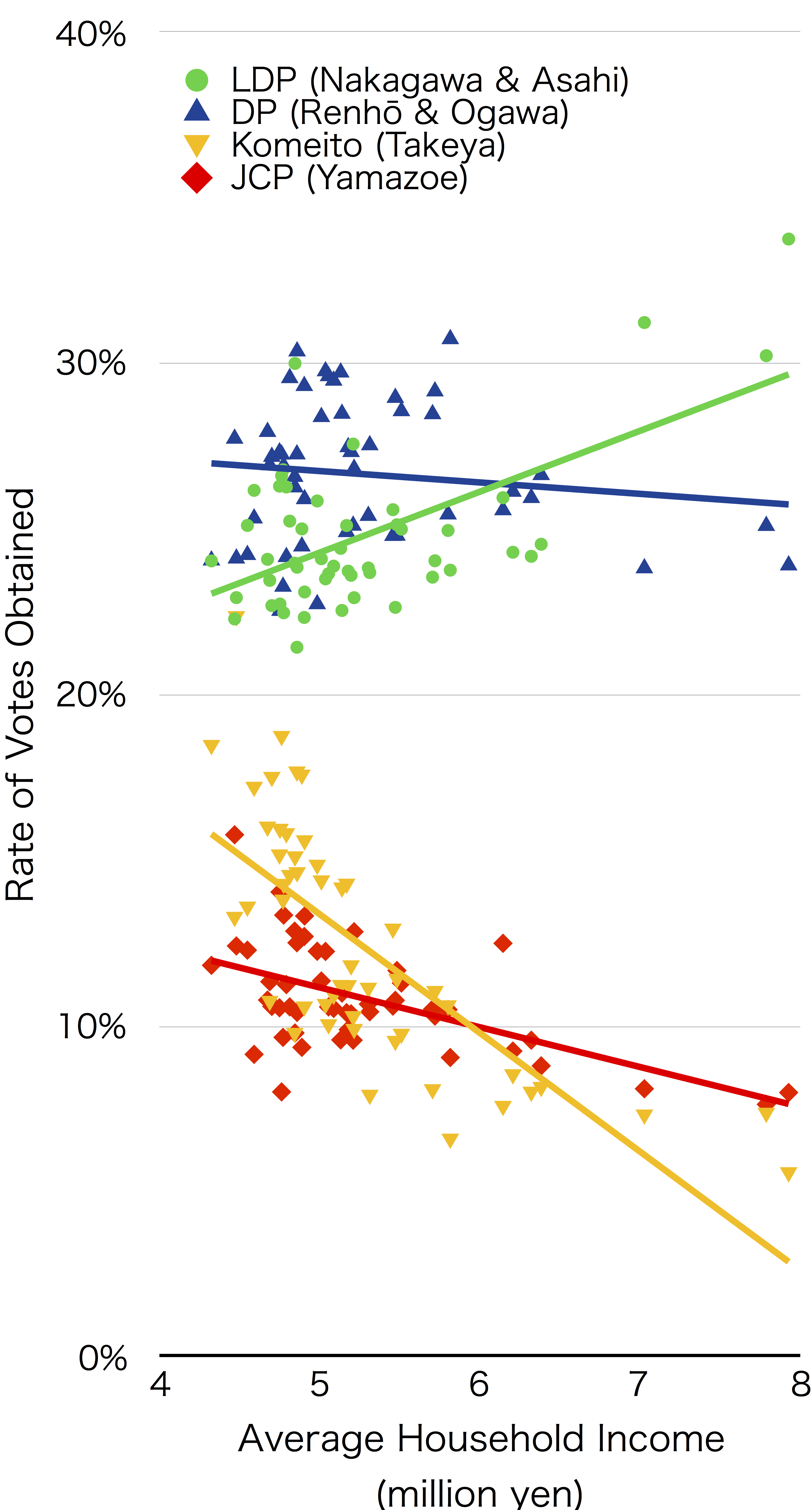 A scatter diagram showing the correlation between the result of Japanese House of Councillors election (2016) and average household income in each municipalities of Tokyo at-large district.